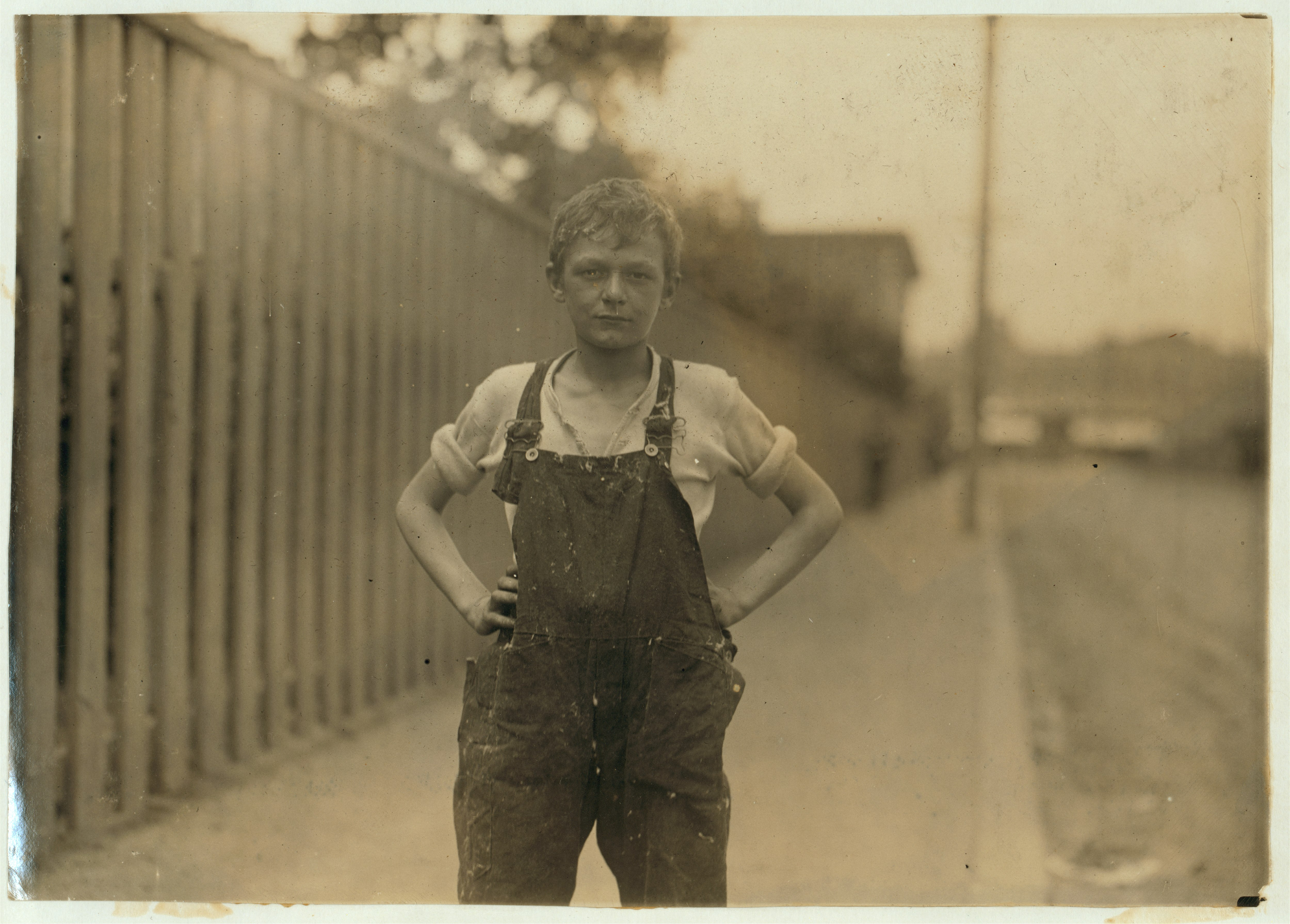 Title: Young worker in Merchants Mill. Abstract: Photographs from the records of the National Child Labor Committee (U.S.) Physical description: 1 photographic print. Notes: Boys.; Textile mill workers.